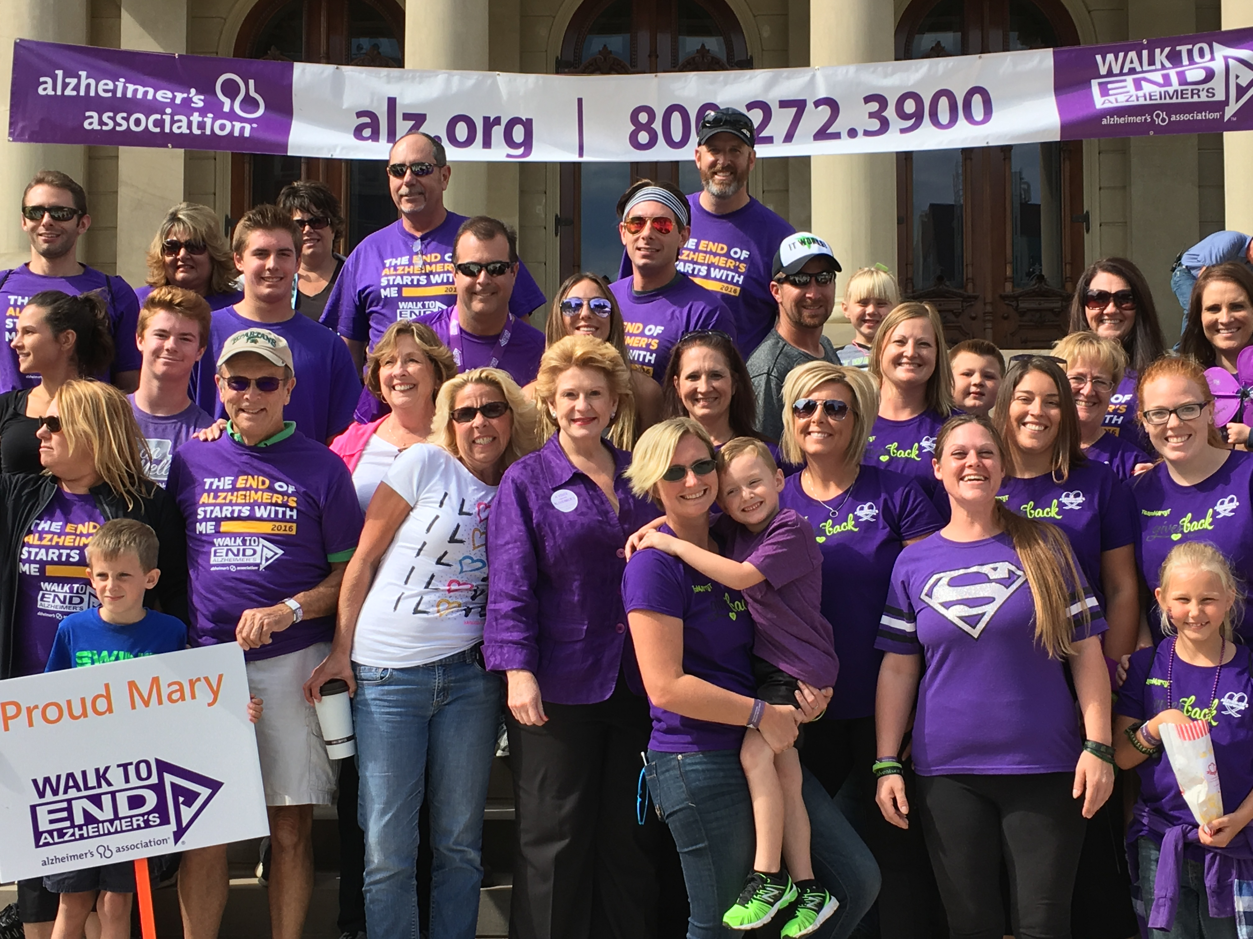 Photo provided by the office of U.S. Senator Debbie Stabenow.